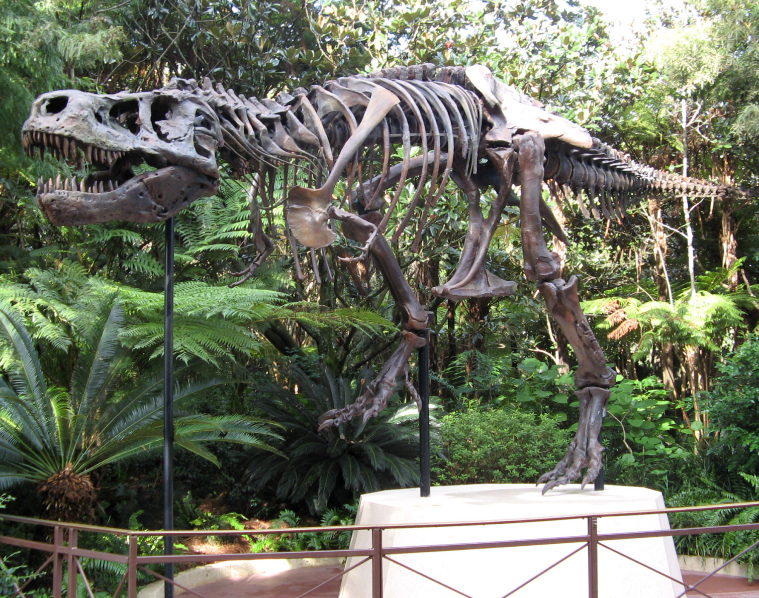 Tyrannosaurus rex skeleton "Sue", Disney Animal Kingdom, Orlando, Florida / 2007